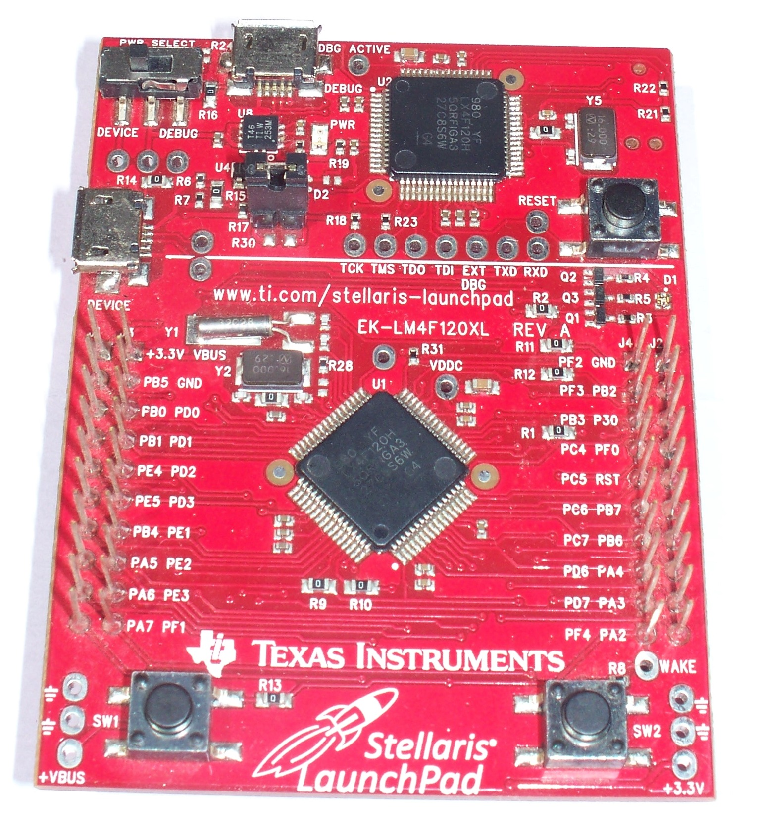 TI Stellaris Launchpad showing LM4F120H (ARM Cortex-M4F Microcontroller